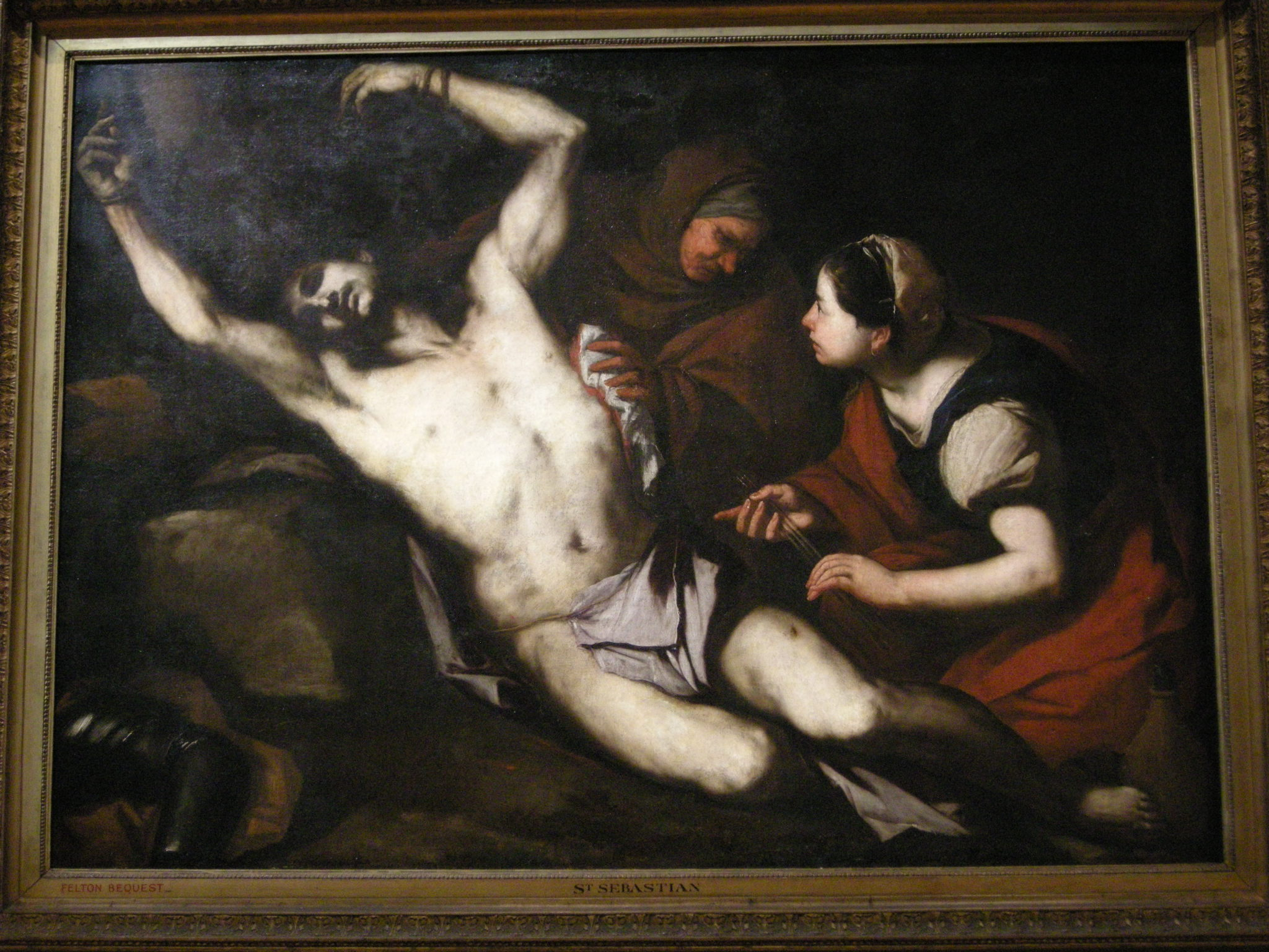 Saint Sebastian tended by Irene of Rome, by Luca Giordana (c. 1653)